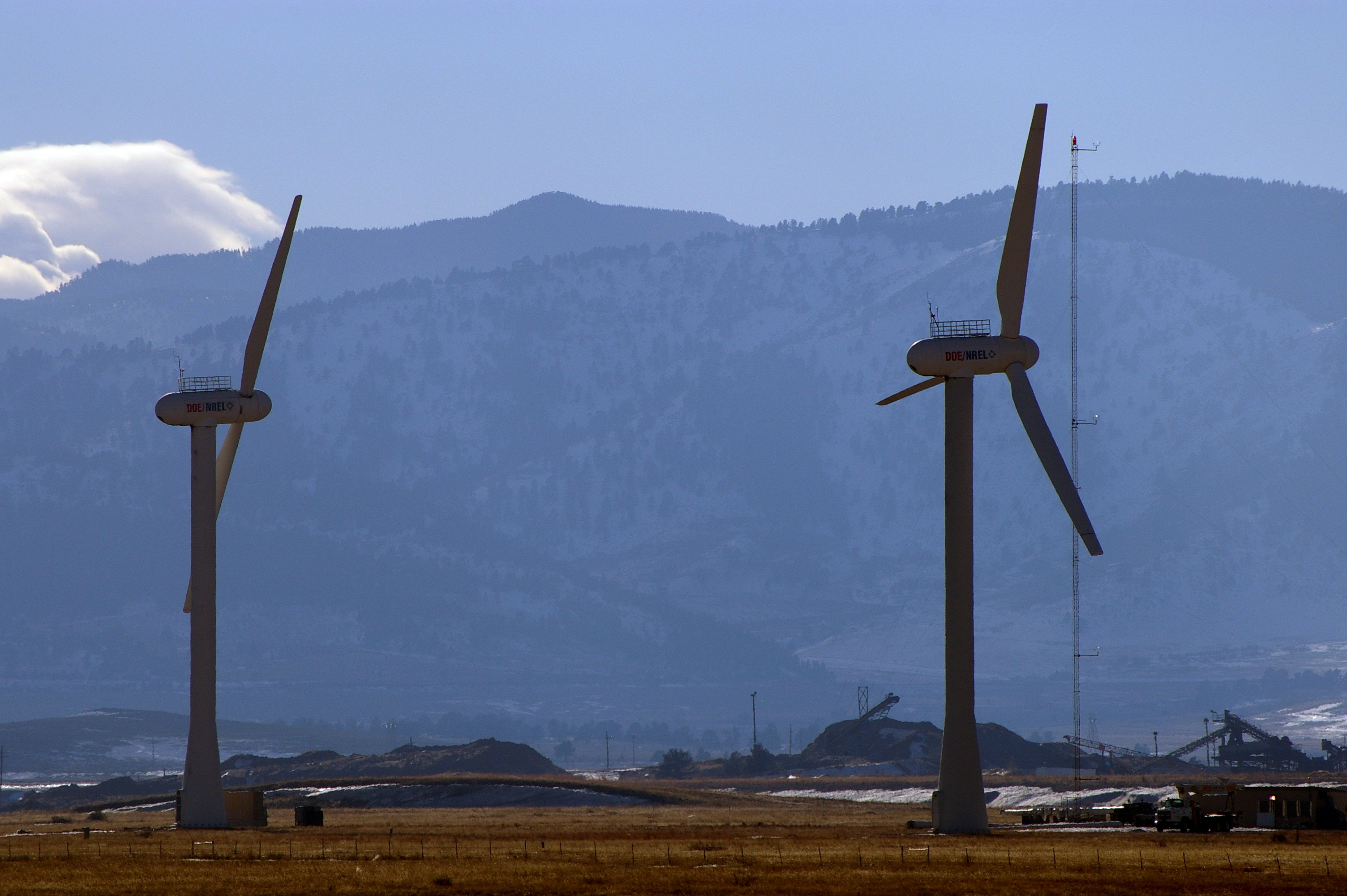 The main research windmills at NREL